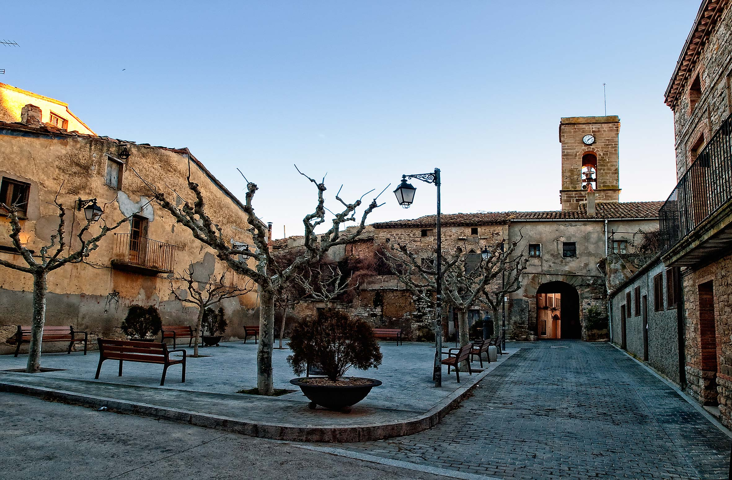 New square of Tarroja de Segarra (Catalonia, Spain)